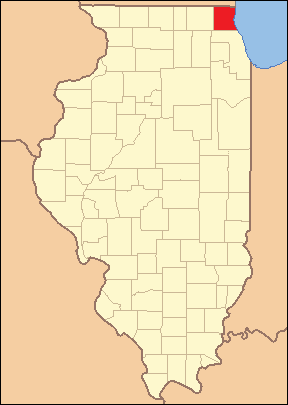 Locator Map of Lake County, Illinois, 1839. Based on: Illinois Secretary of State. Origin and Evolution of Illinois Counties. March 2010. p. 57.